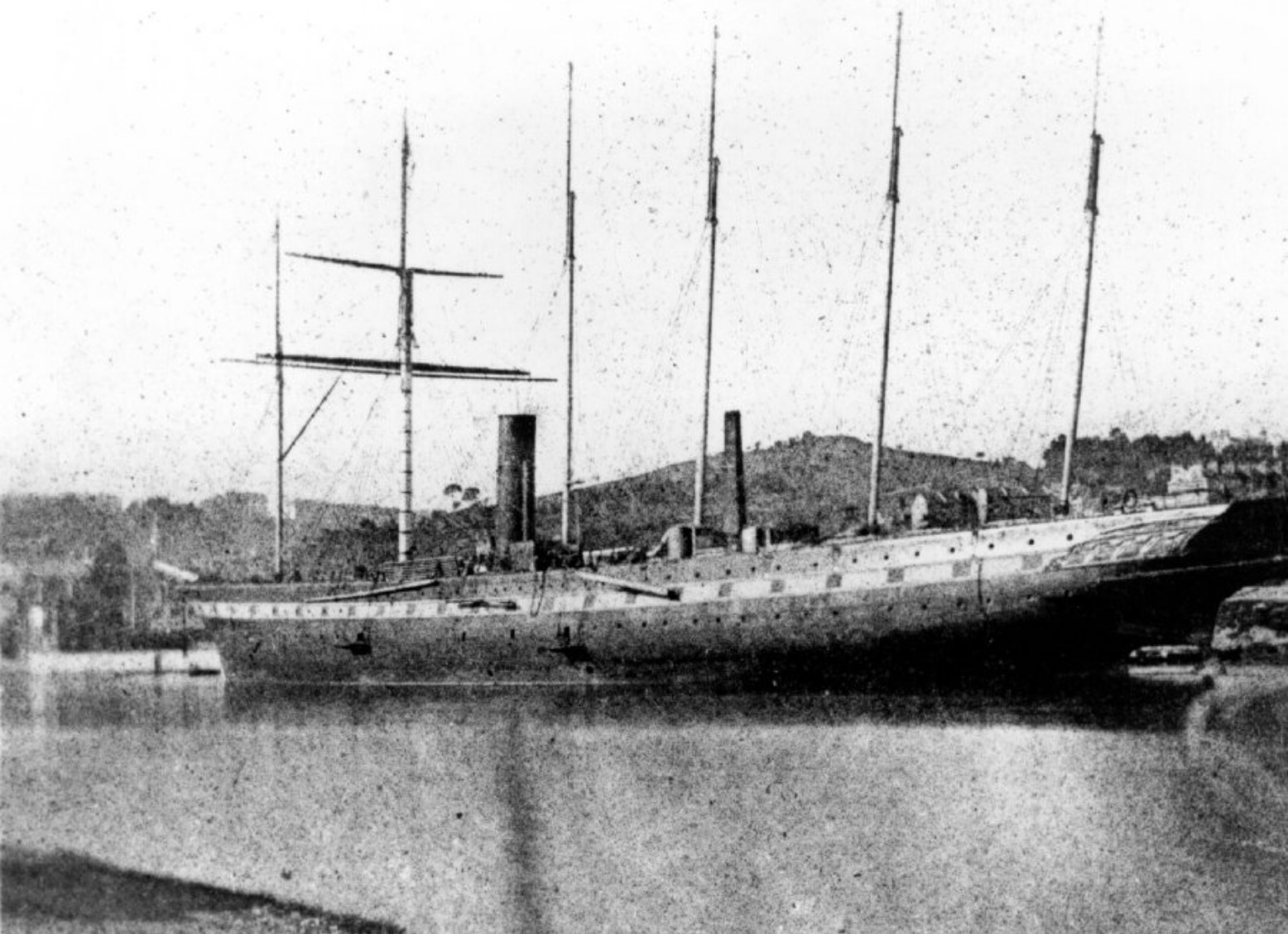 SS Great Britain fitting out alongside Gasworks quay in Bristol Floating Harbour (not Cumberland Basin), April 1844. This photograph of Great Britain taken by pioneering photographer William Henry Fox Talbot is not only the first taken of Great Britain, but also believed to be the first photograph ever taken of a ship.